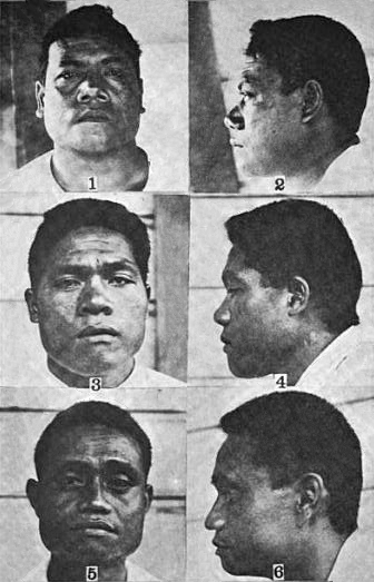 This is a gallery of "full-blood Samoans" — from a publication by Louis R. Sullivan who was Curator of Physical Anthropology at the American Museum of Natural History, from a book published in 1921.